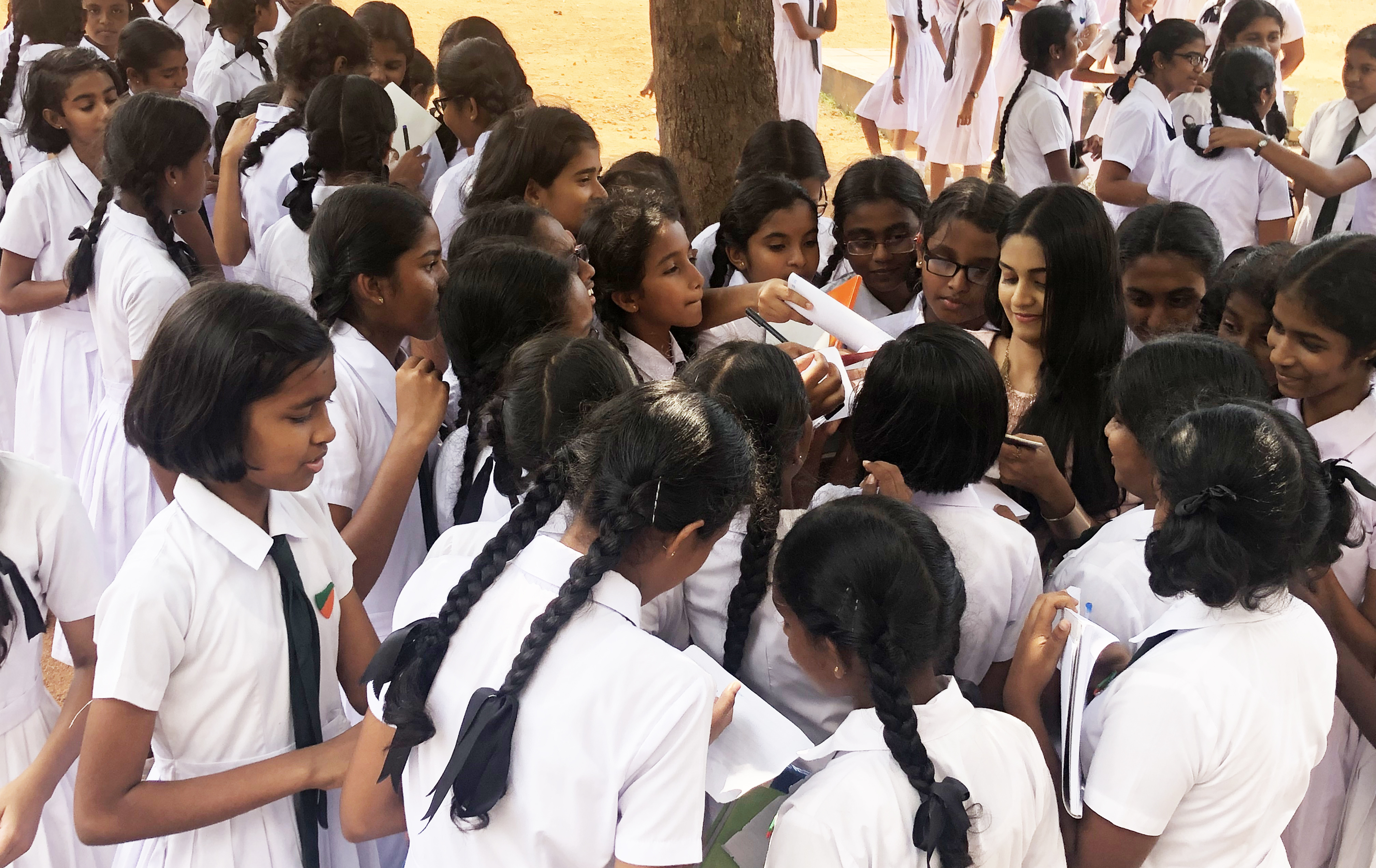 Michelle Dilhara attended to a school for a Leadership program.